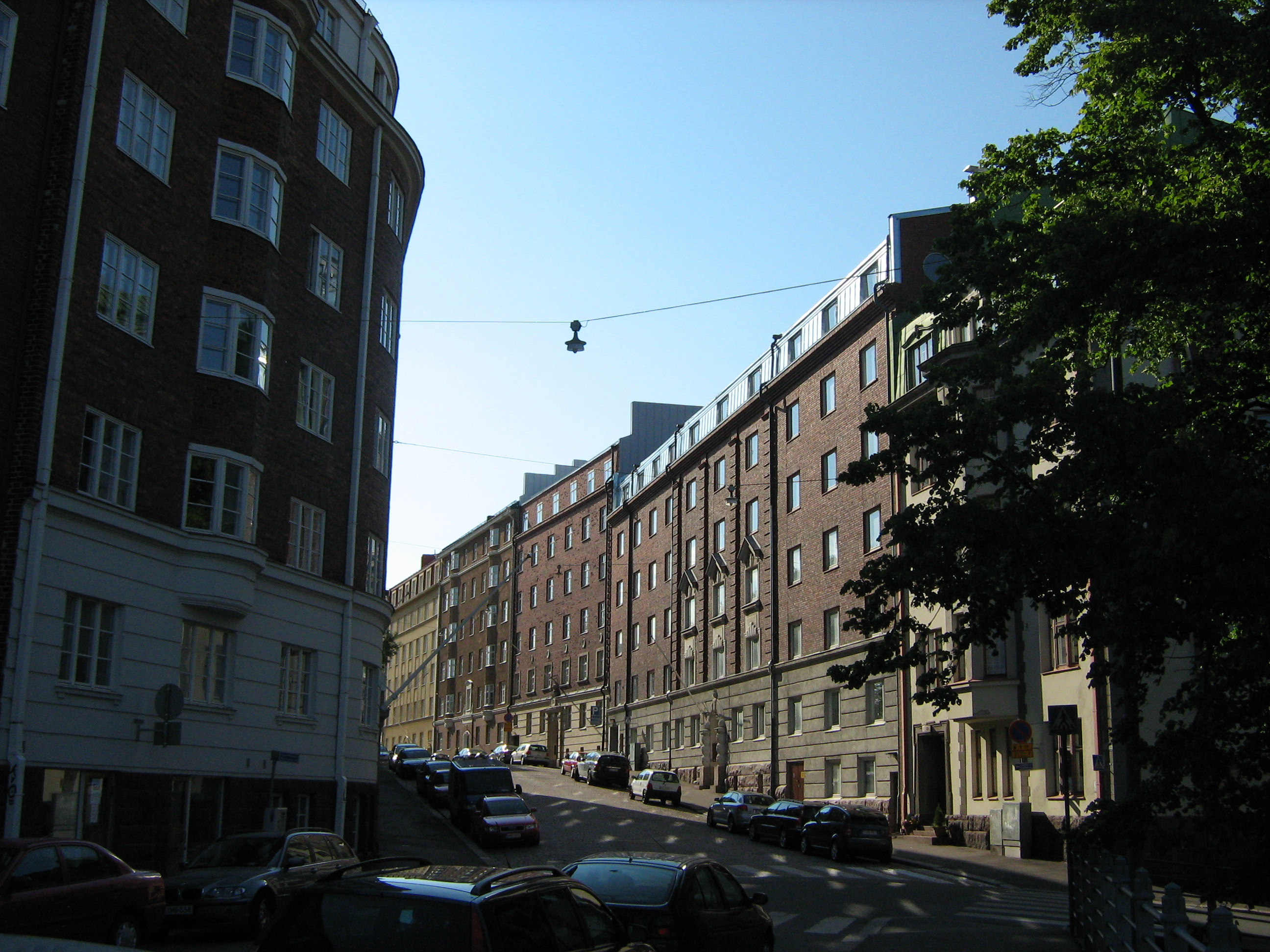 Temppelikatu street in Etu-Töölö, Helsinki